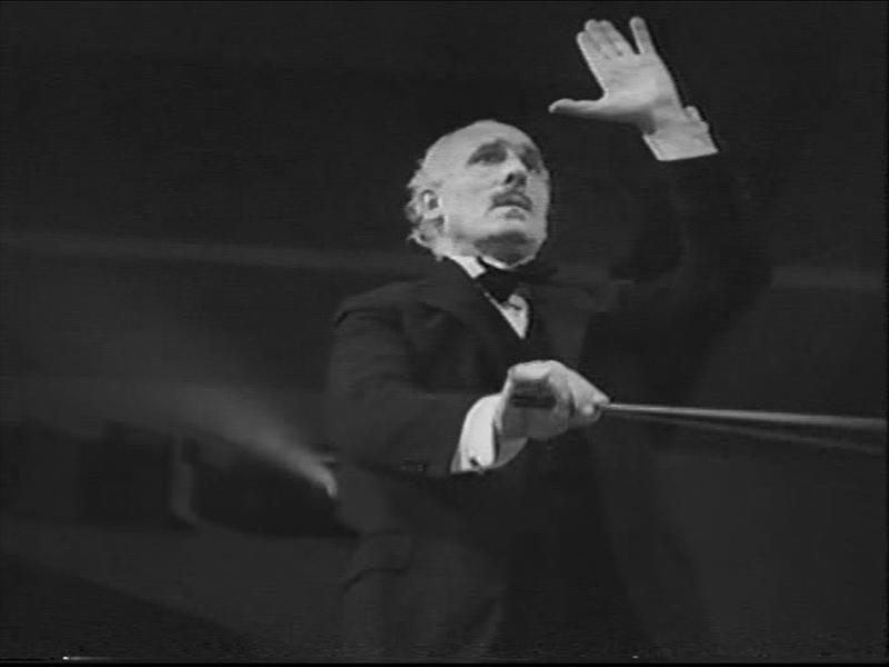 Arturo Toscanini from "Hymn of the Nations". And playing the "La forza del destino" Overture